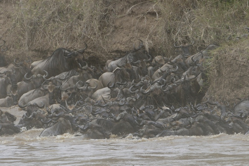 Dust stirred up by wildebeests entering the water stirred up enough dust to create a hazy effect all the way to the opposite bank. 690V1712